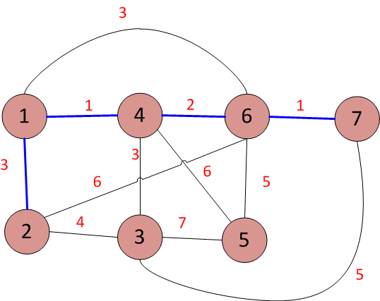 step 4 for debug Kruskal